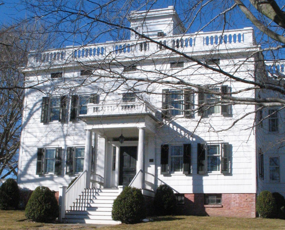 Mercator Cooper house in Southampton. The house is now used by the town library. Photo by poster in March 2007.